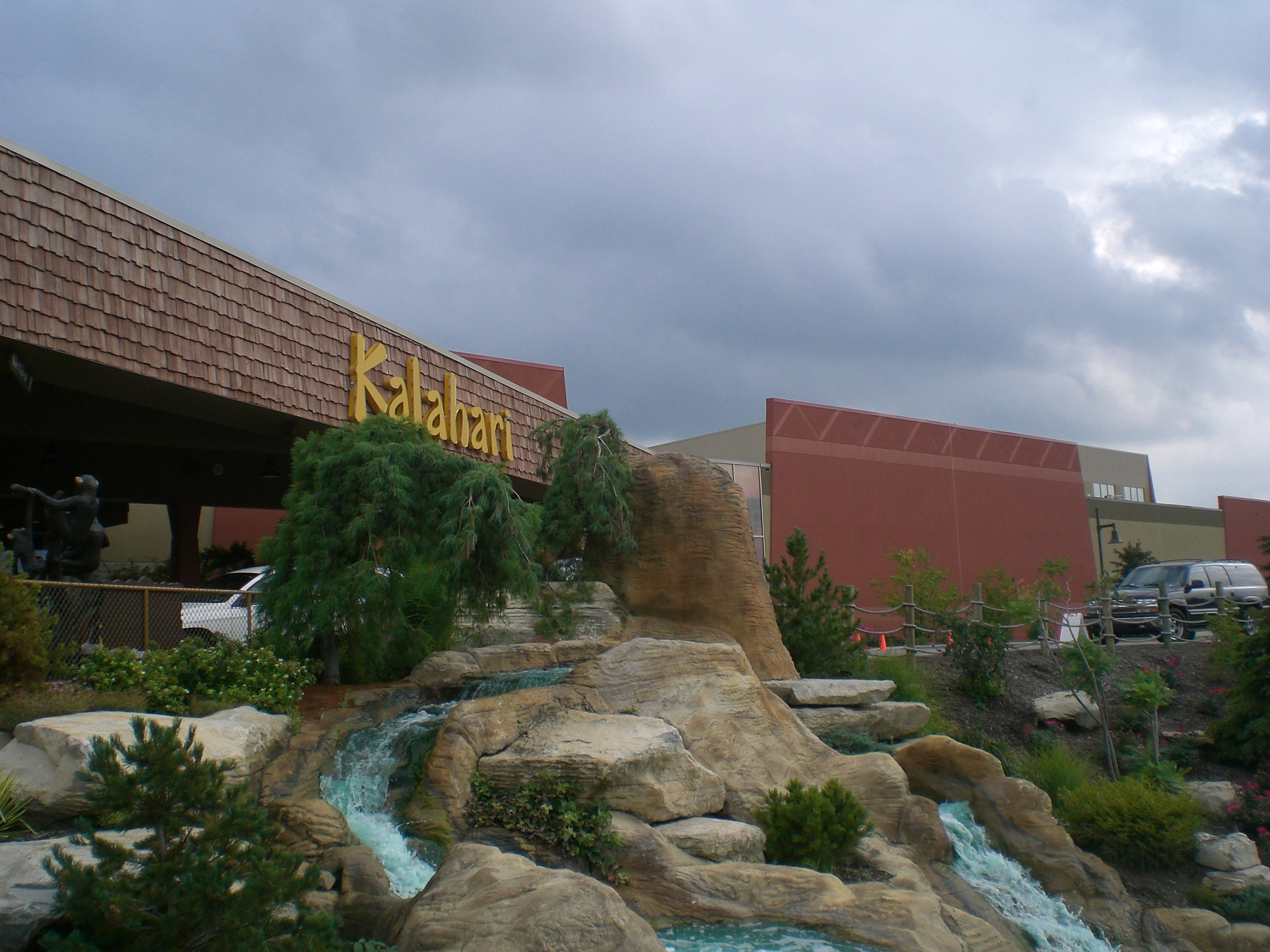 The Kalahari is a popular waterpark with a African theme.